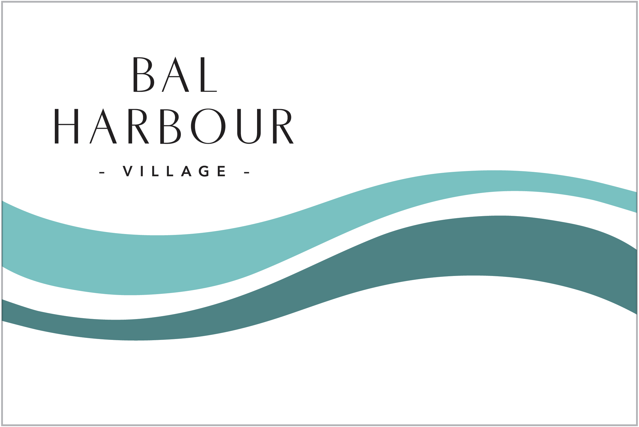 Village Flag approved by Village Council 5/17/16